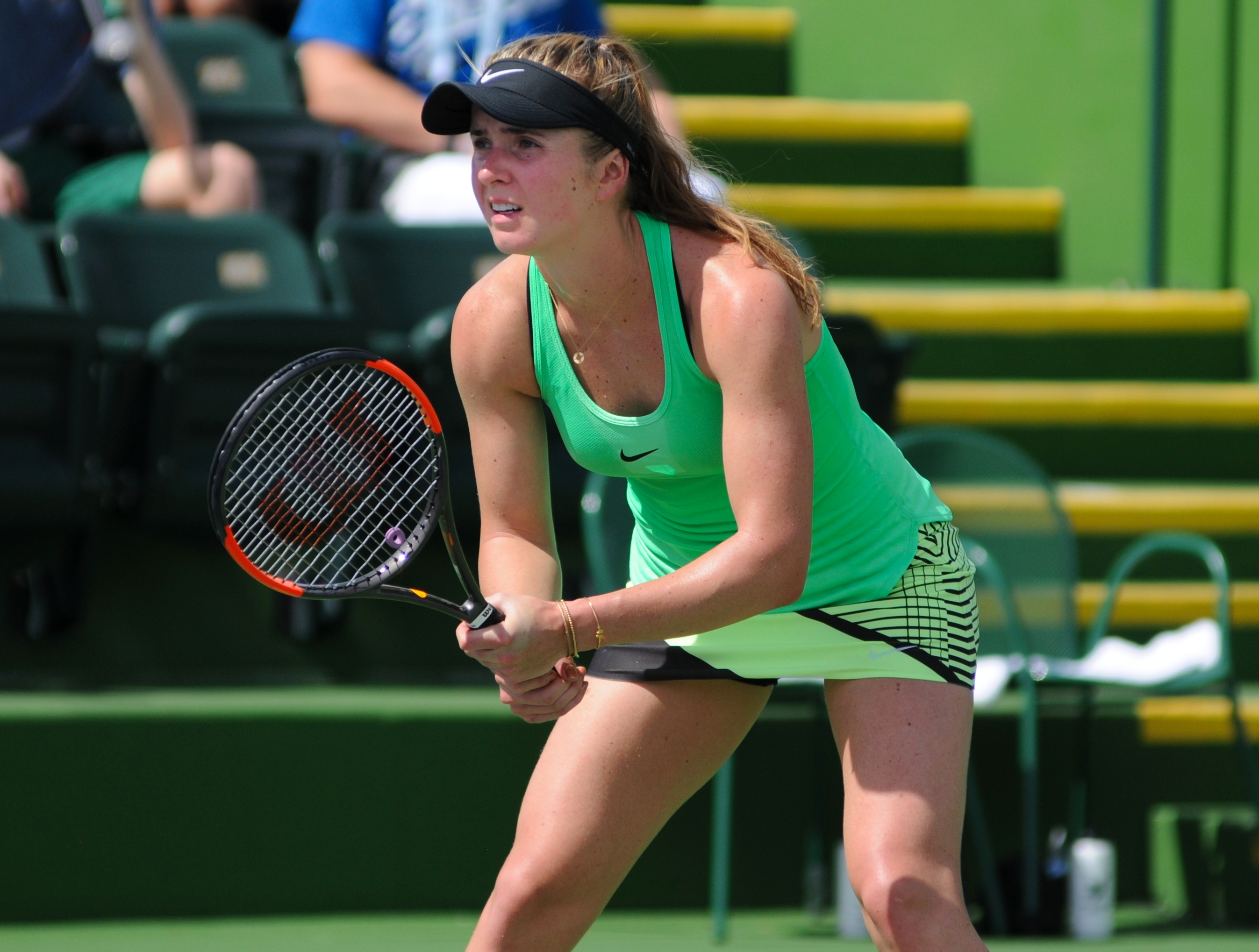 Elina Svitolina at the 2017 BNP Paribas Open